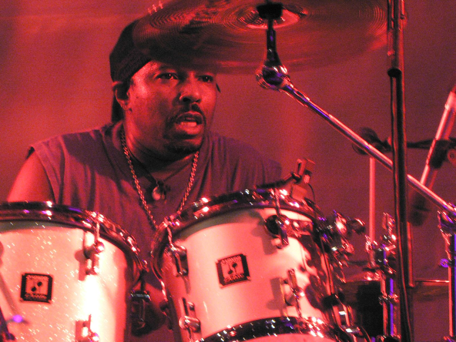 Calvin Weston